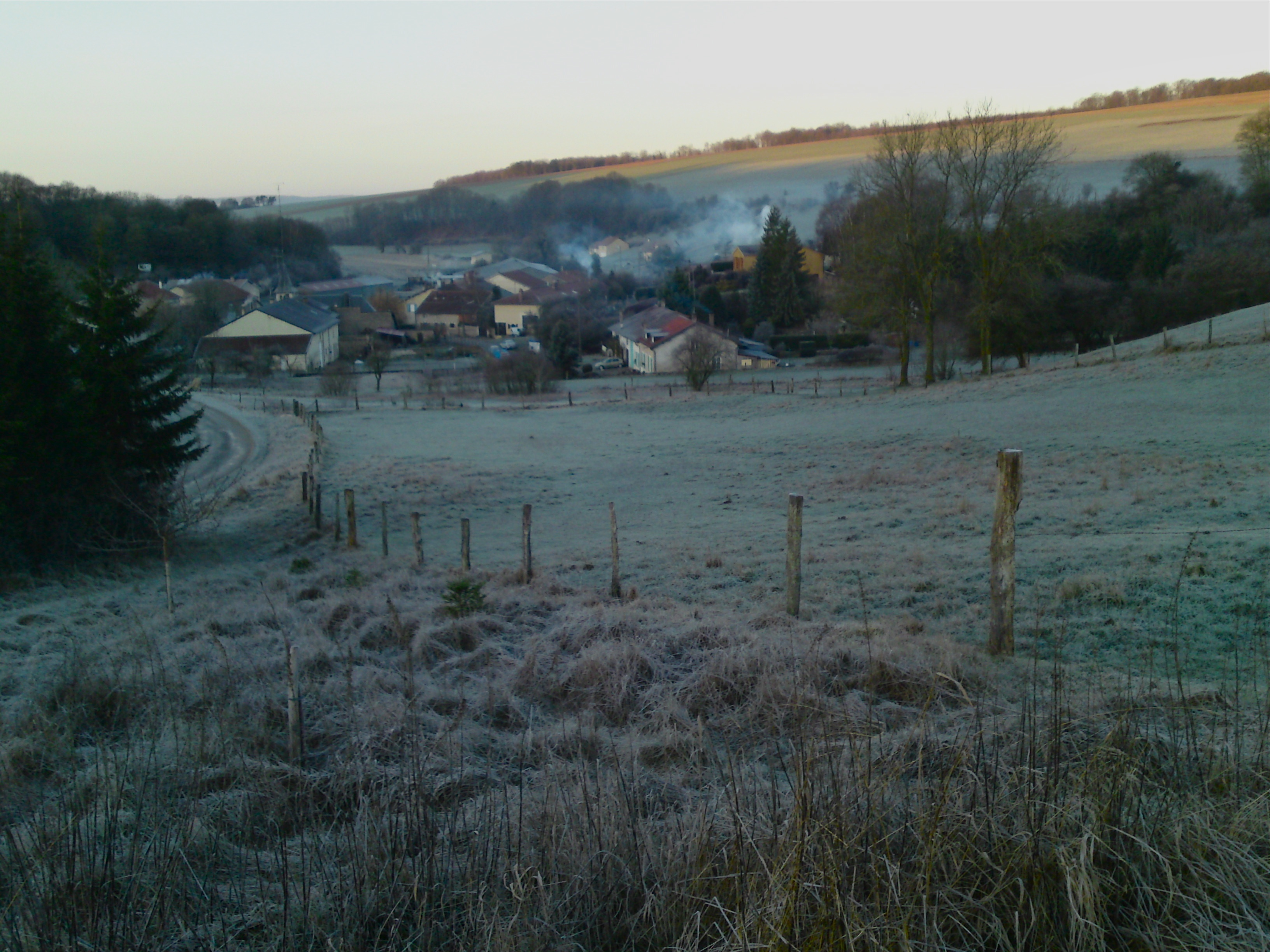 General view of Dompierre-aux-Bois, Meuse, France.